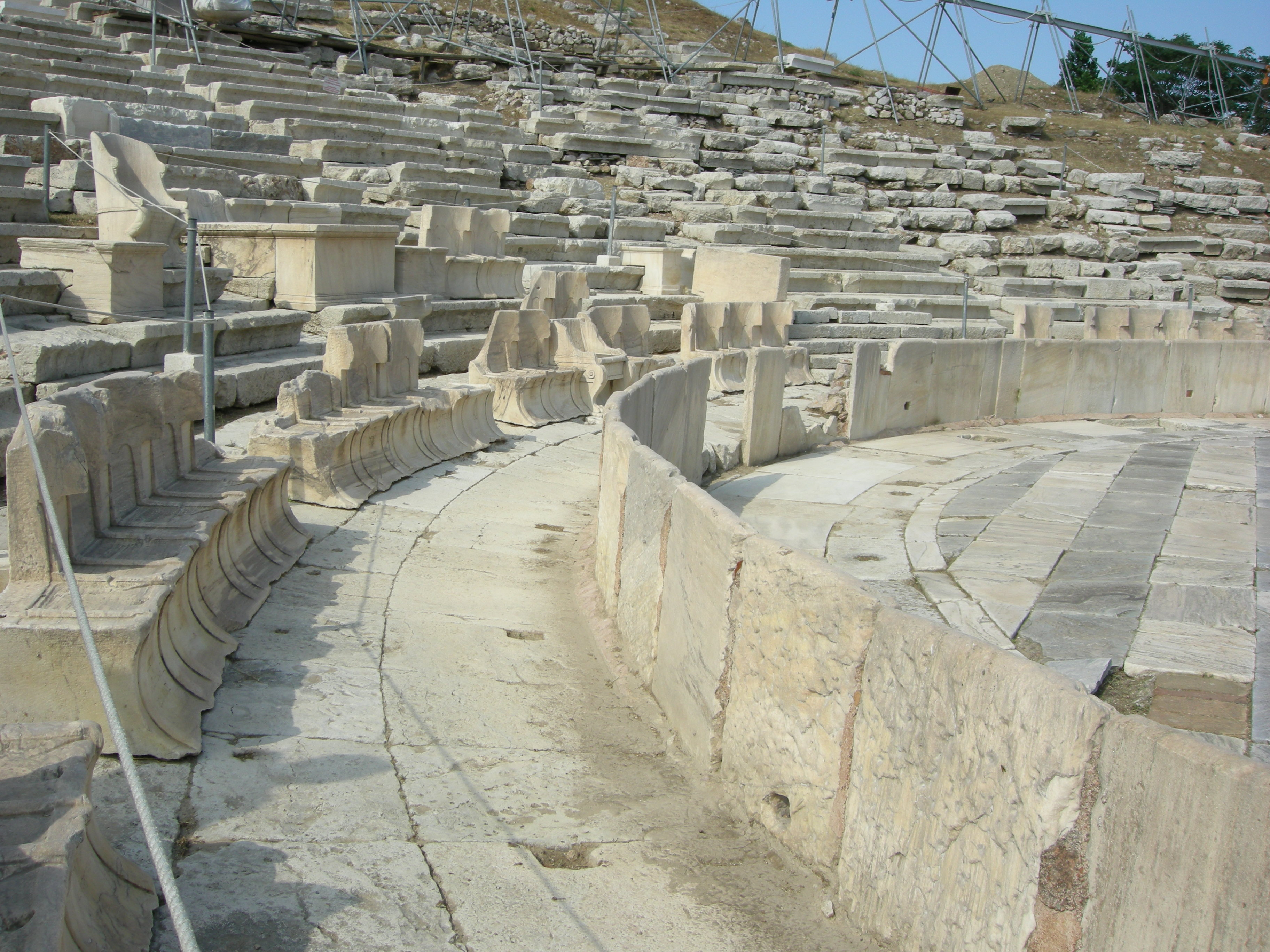 Theatre of Dionysus